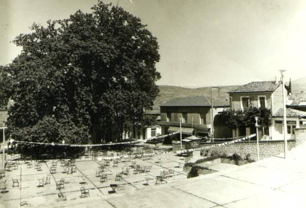 Desfina square